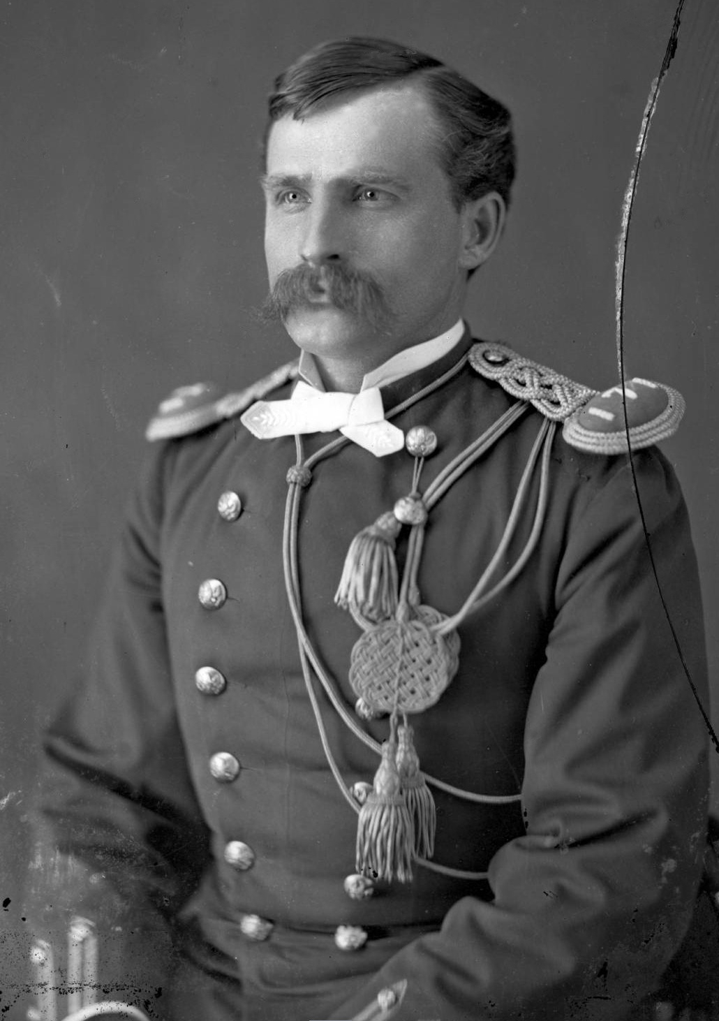 Captain Algernon Emory Smith, in uniform; regimental quartermaster and commanding Company E of the 7th Cavalry.